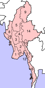 Map of Myanmar (Burma) 1 = Ayeyarwady 2 = Bago 3 = Magway 4 = Mandalay 5 = Sagaing 6 = Tanintharyi 7 = Yangon 8 = Chin 9 = Kachin 10 = Kayah 11 = Kayin 12 = Mon 13 = Rakhine 14 = Shan